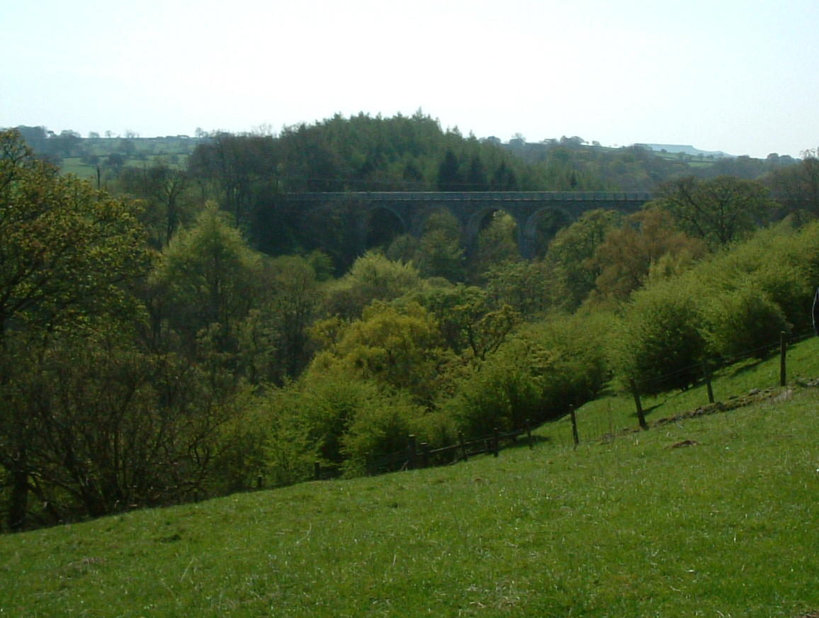 The Balder Viaduct, Cotherstone. Taken by James@hopgrove, March 2004.